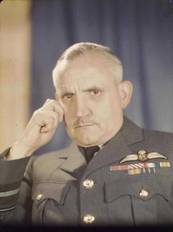 The British Air Force of Occupation, Germany, January 1945 Head and shoulders portrait of Air Vice Marshal F L Hopps, Air Officer in Command, British Air Force of Occupation, Germany.